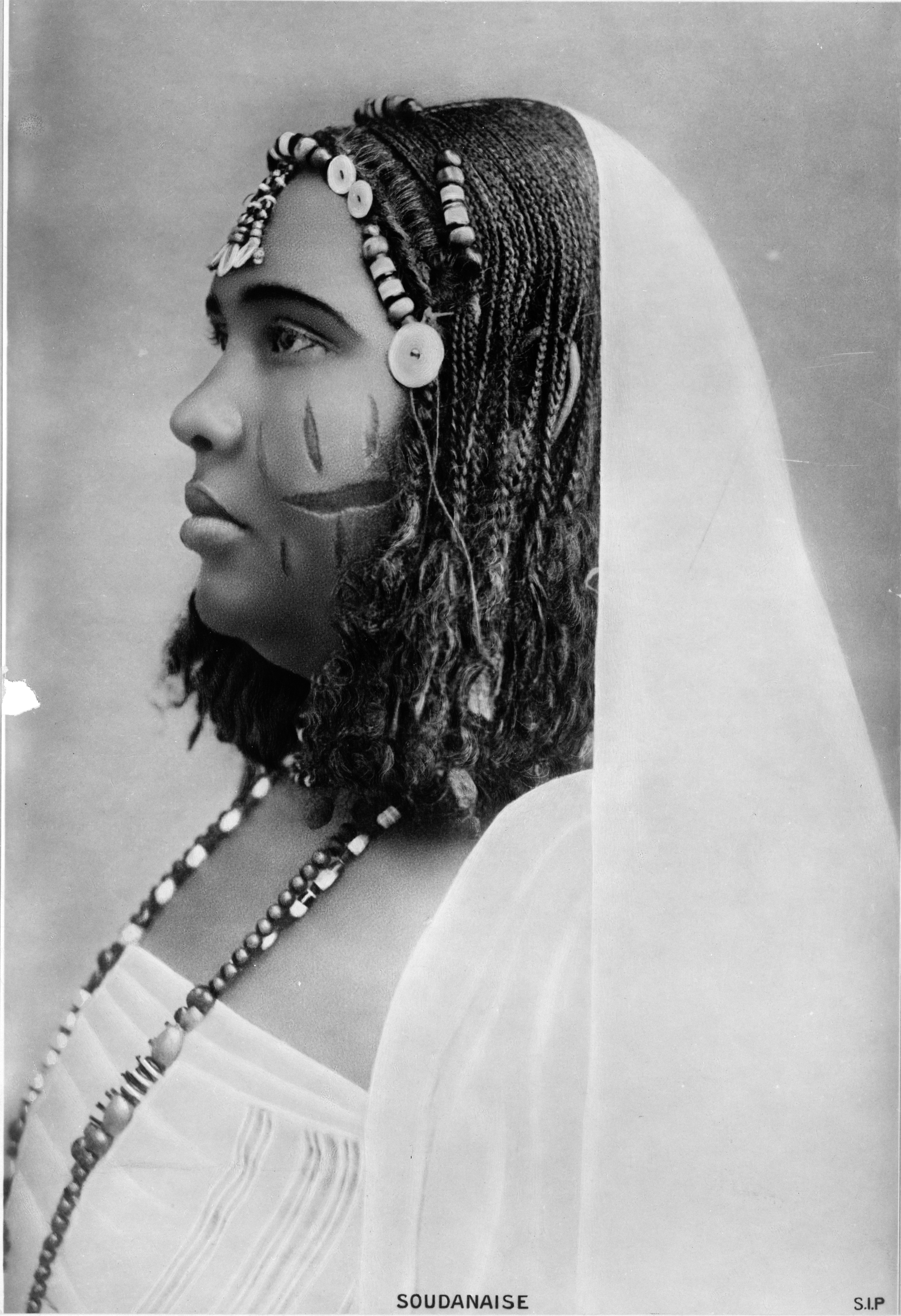 Title: Sudanese woman Abstract: Photo shows a Sudanese woman, head and shoulders portrait, left profile. Physical description: 1 photographic print. Notes: Printed at bottom center: Soudanaise.; Title from caption card and item.; LOT subdivision subject: Sudan.; Forms part of: Frank and Frances Carpenter Collection (Library of Congress).